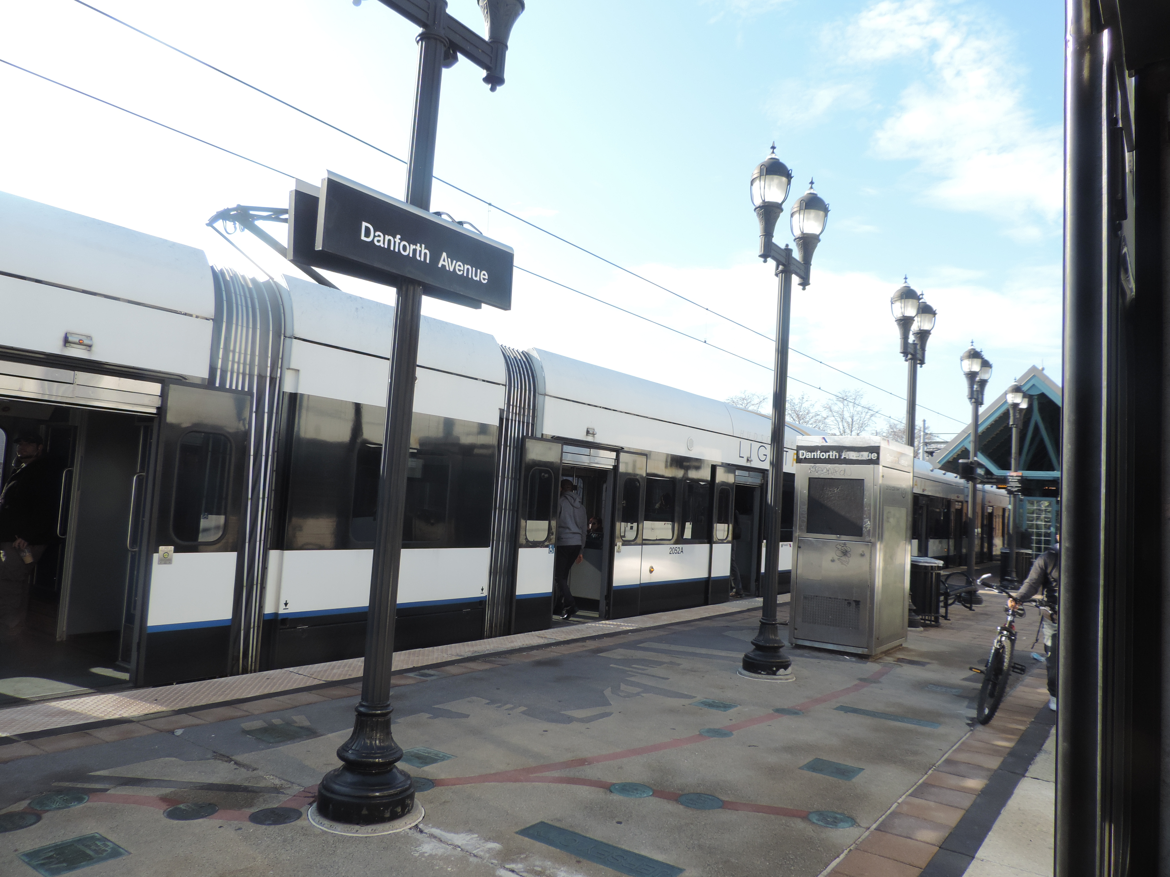 Looking south from southbound tram at platform and northbound tram on a mostly sunny morning